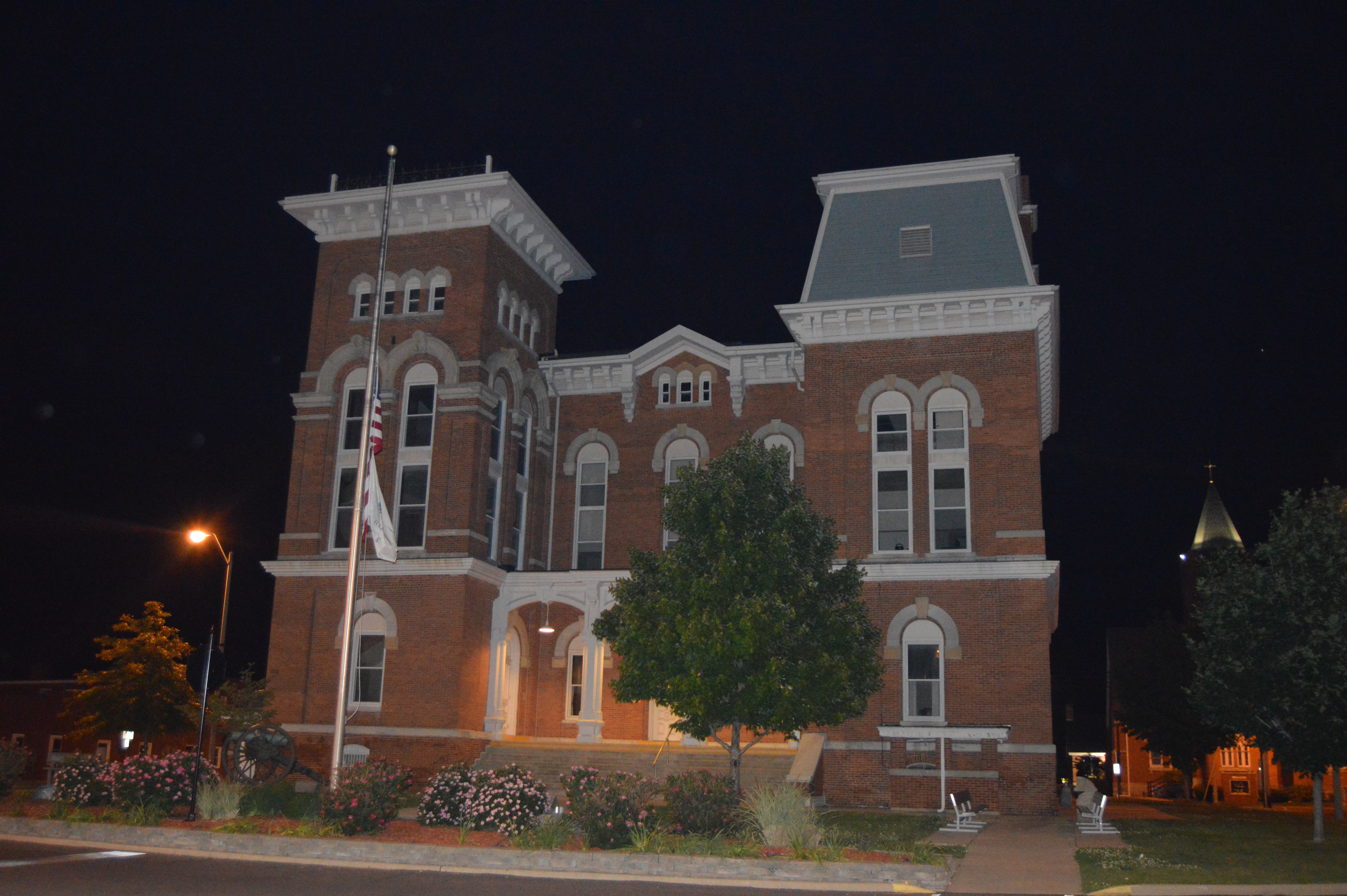 Front of the Montgomery County Courthouse, located on Courthouse Square in Hillsboro, Illinois, United States. Built in 1871, it is listed on the National Register of Historic Places.